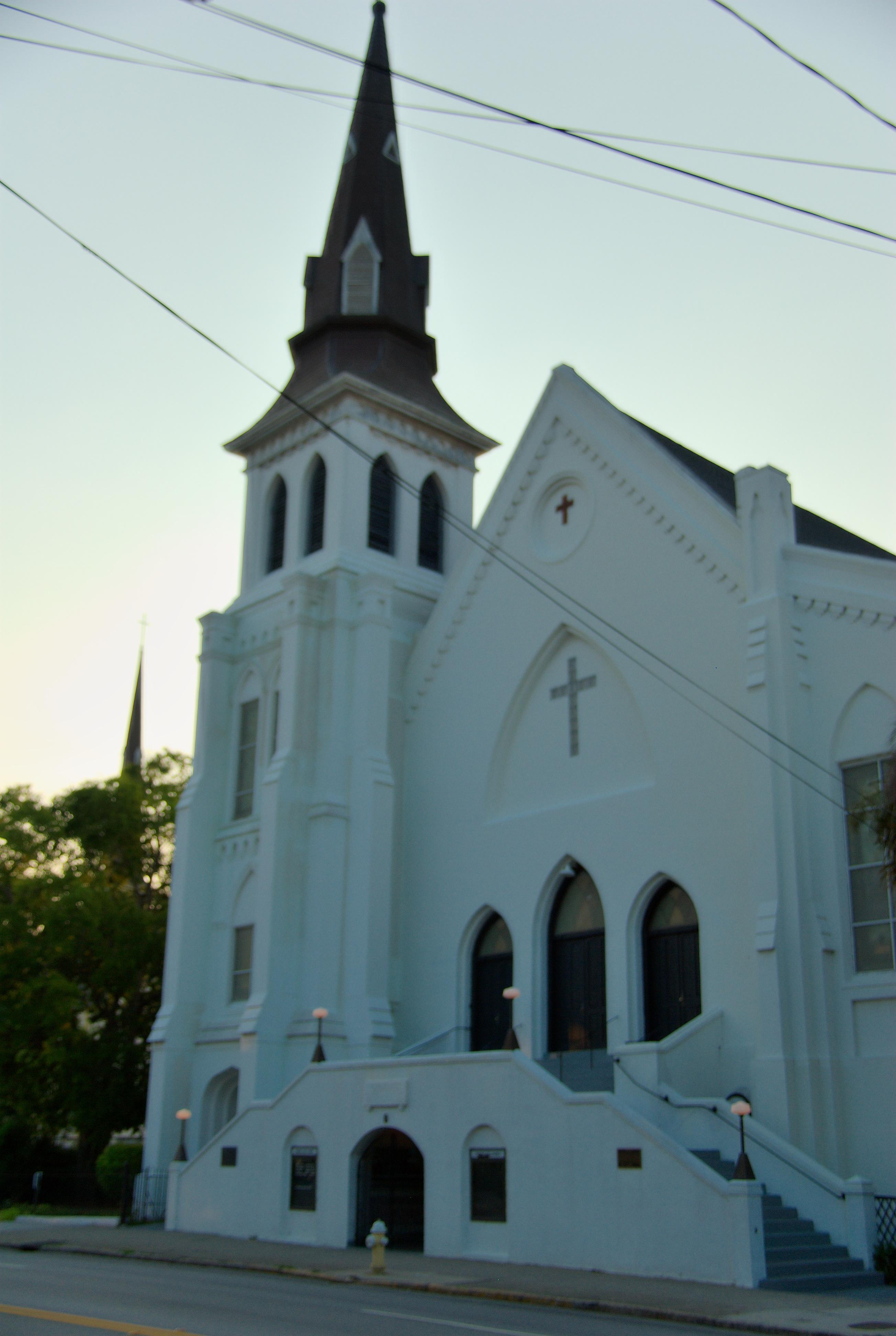 This is the oldest AME church in the south and the second oldest in the world.